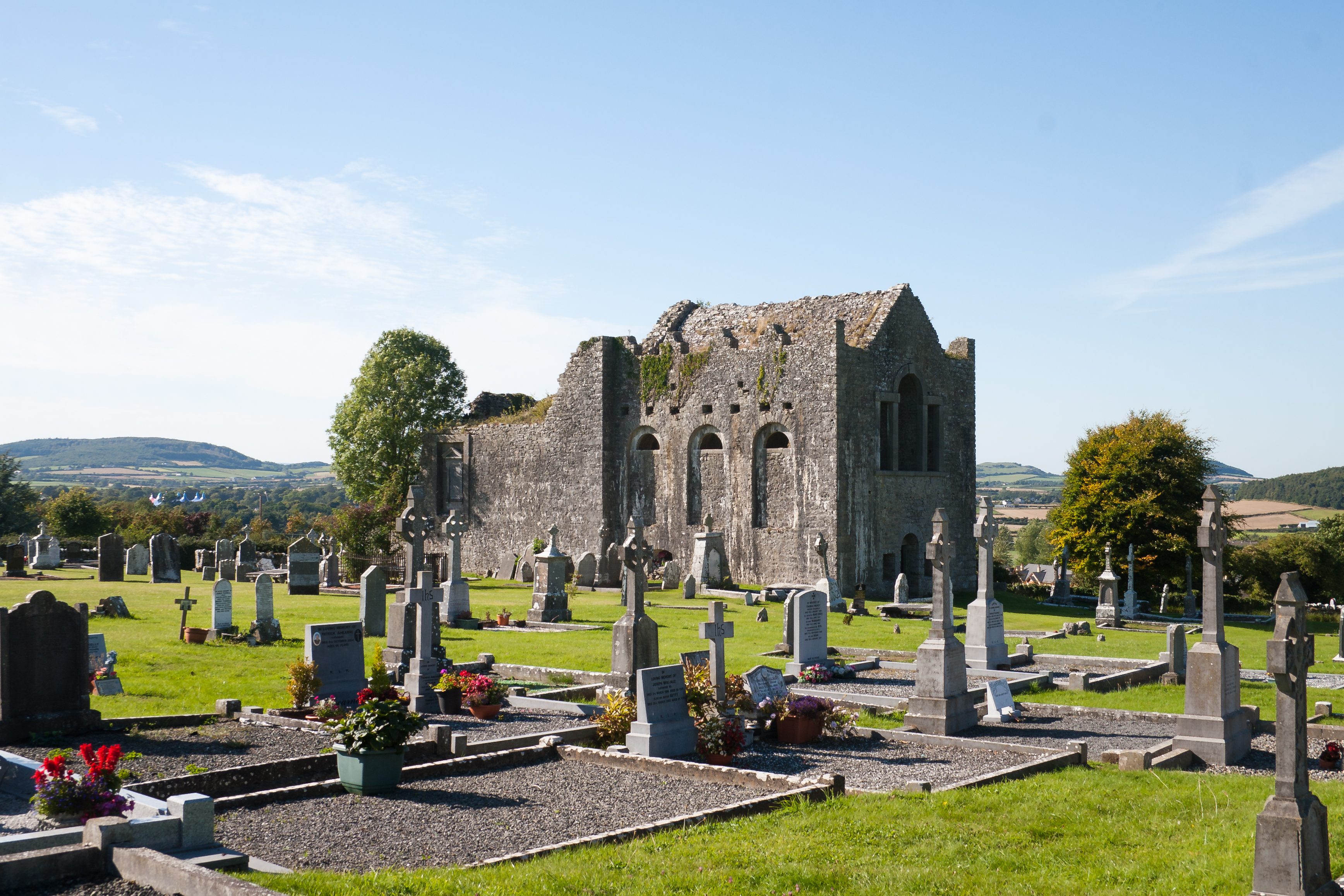 Ruins of a medieval church which was heavily modified in the 19th century on the site of St. Coleman's monastery. Located south-east of Stradbally in the townland of Carricksallagh at the N80 (Stradbally to Carlow).